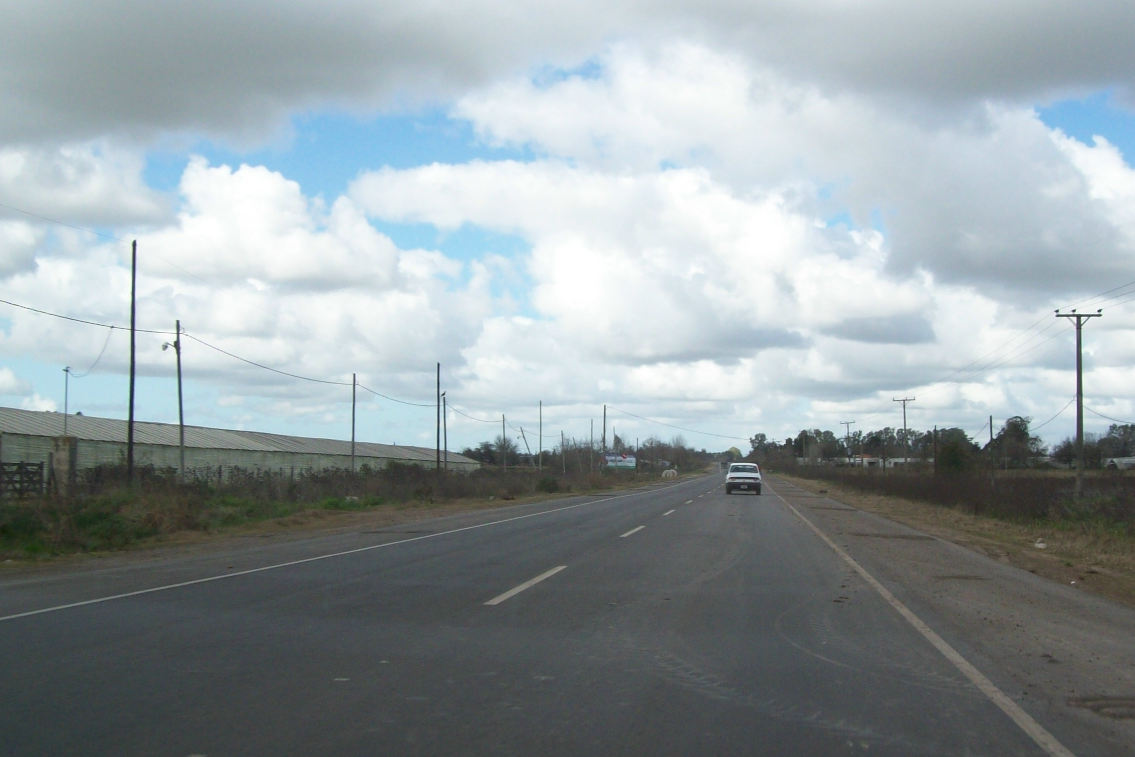 Provincial Route 36 in Colonia Urquiza, La Plata Partido, Buenos Aires Province, Argentina.